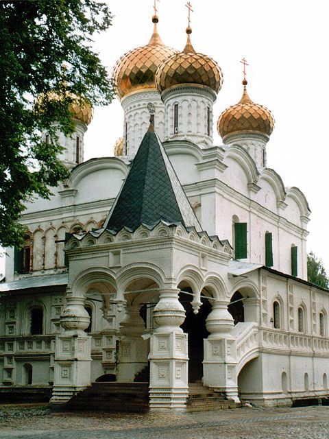 Ipatiev Monastery